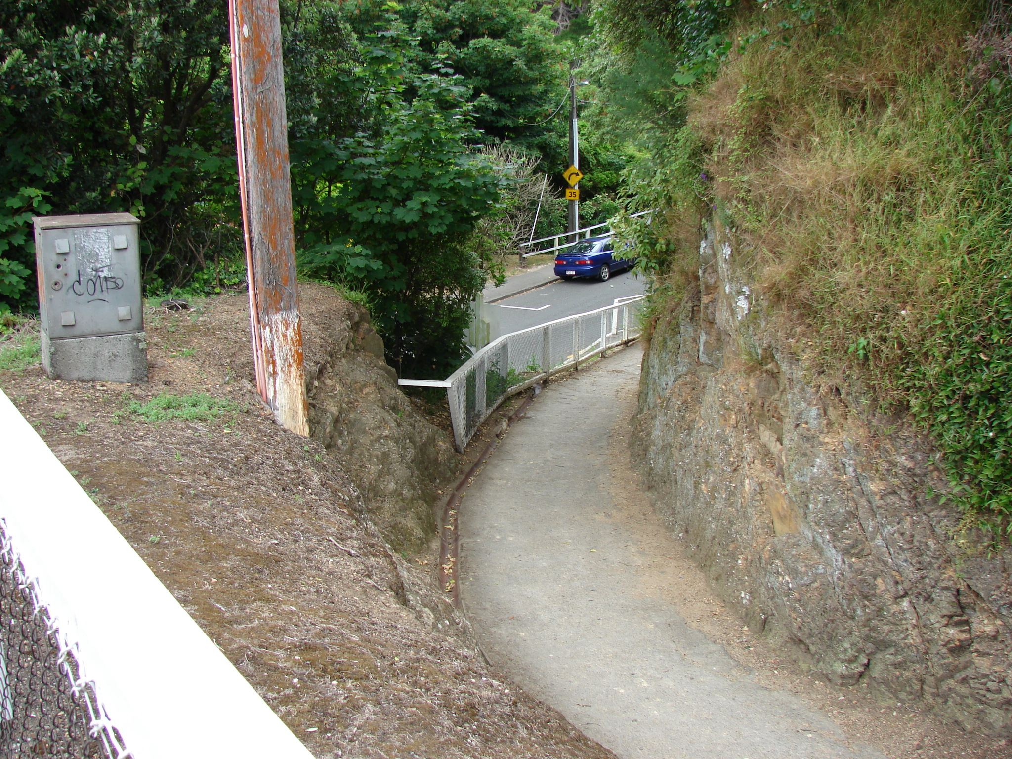 Awarua Street railway station pedestrian access from Awarua Street. Photographed by Matthew25187 on 2007-12-17.